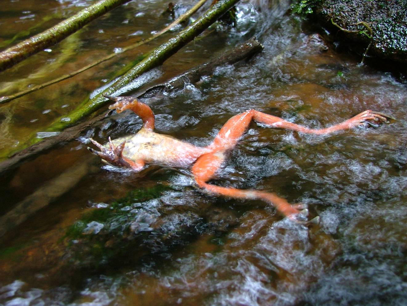 A chytrid-infected frog (see Chytridiomycosis)